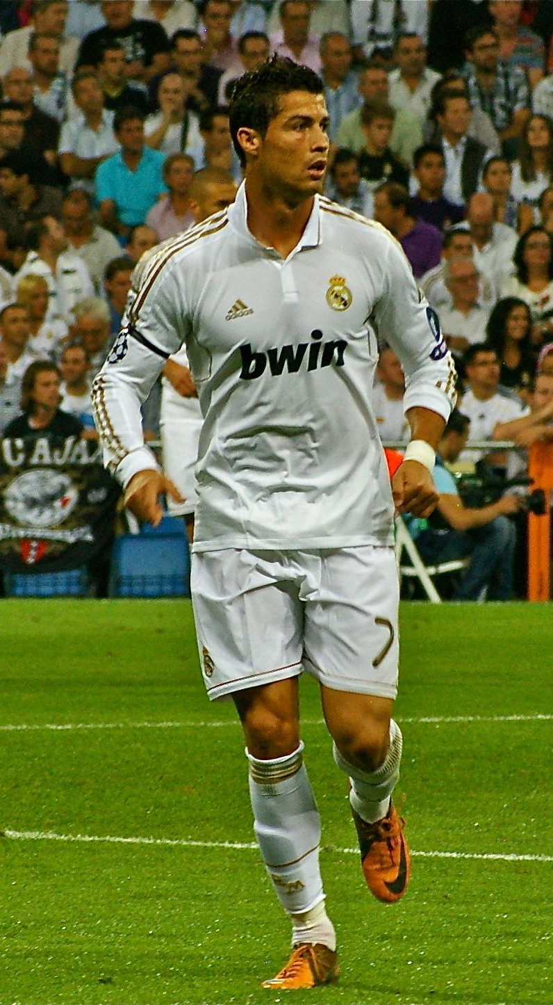 Cristiano Ronaldo at Santiago Bernabeu, Champions League, Ajax 2011